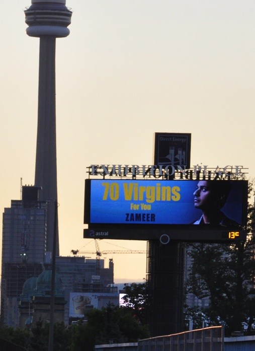 This picture shows a Billboard campaign run by Zameer to promote his single '70 virgins' which is a song about anti-terrorism.